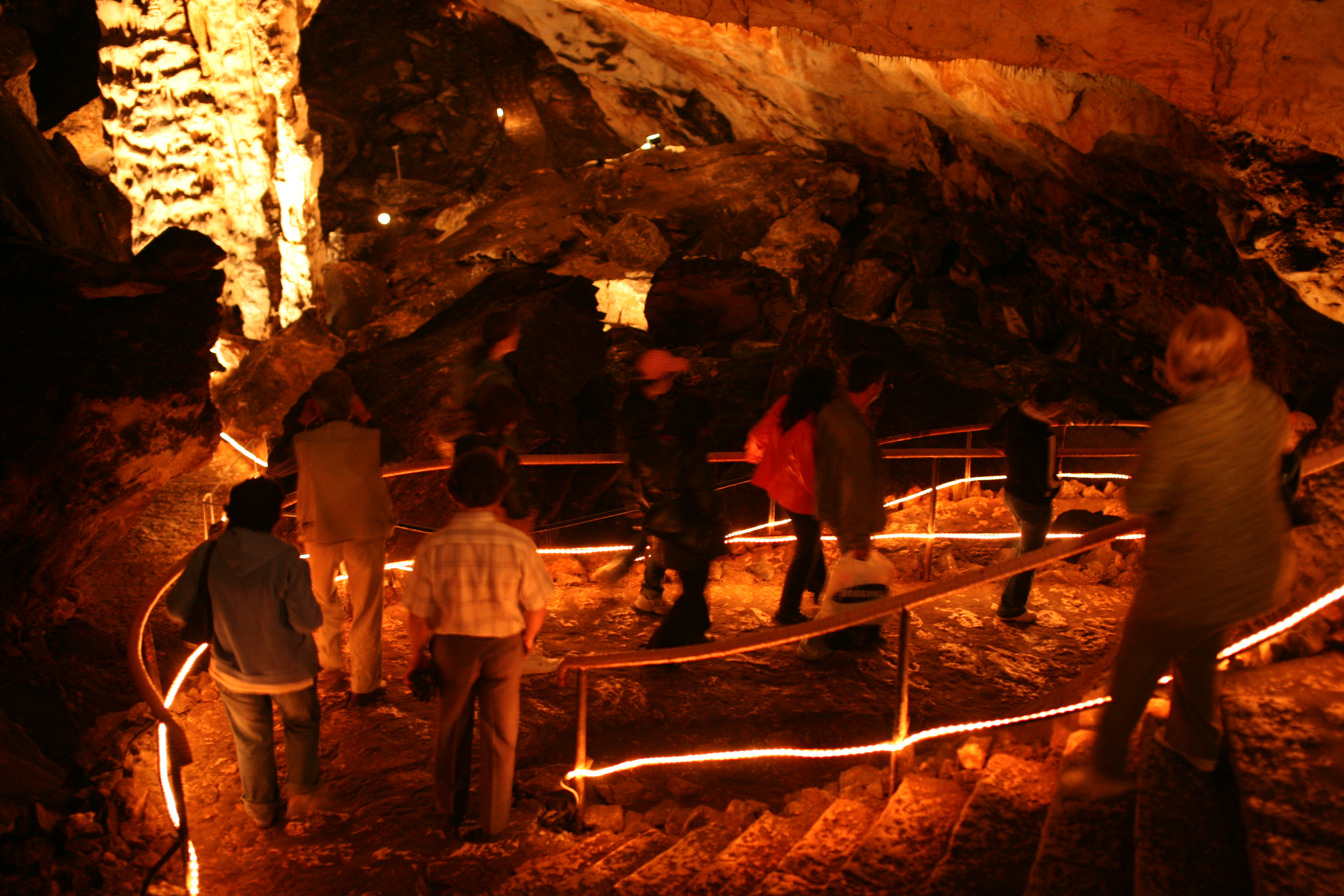 Magura Cave, Bulgaria